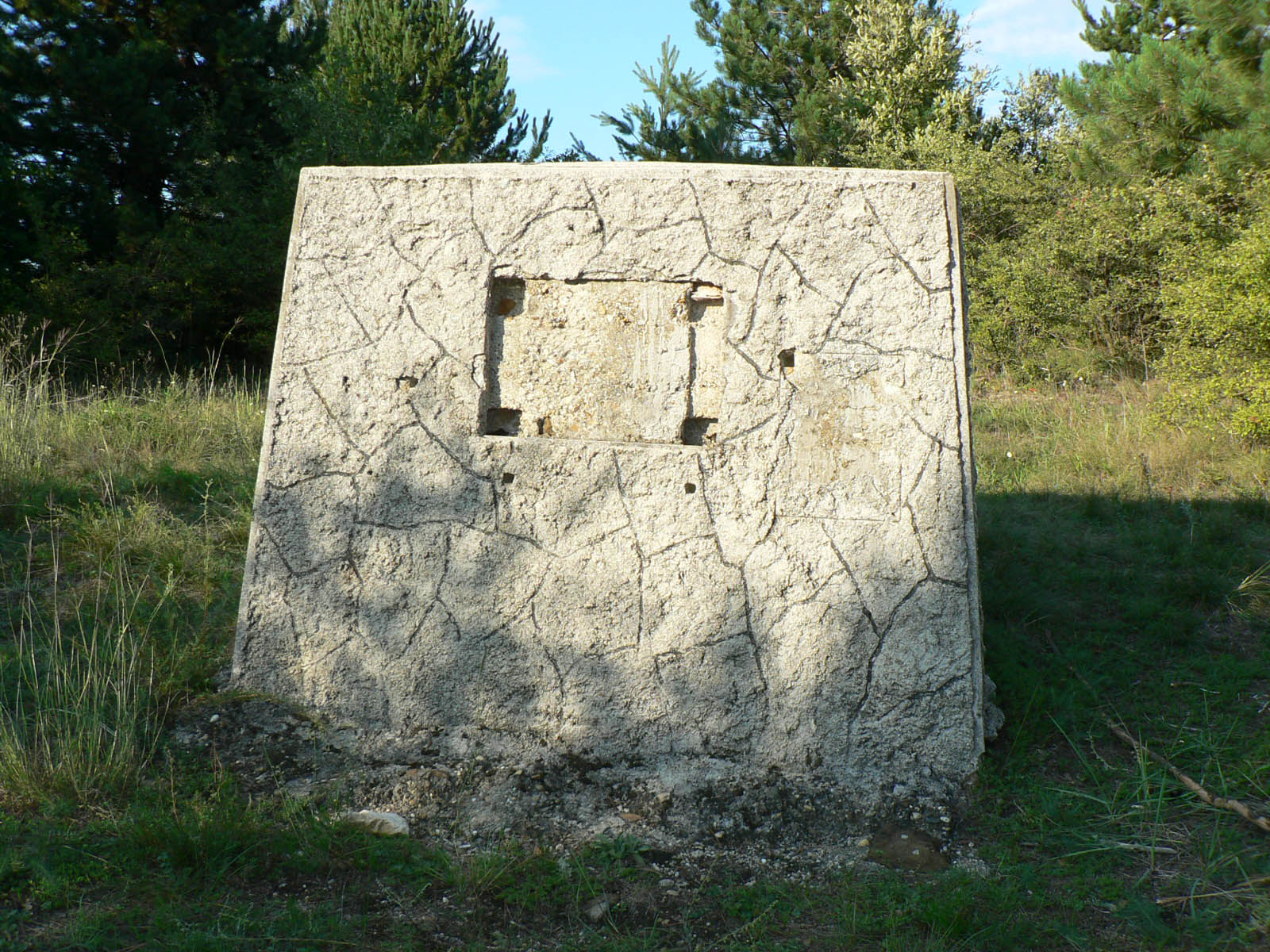 1948-as emlékmű maradványai a Jegenye-völgyi nagytisztás fölötti magaslaton (2007)